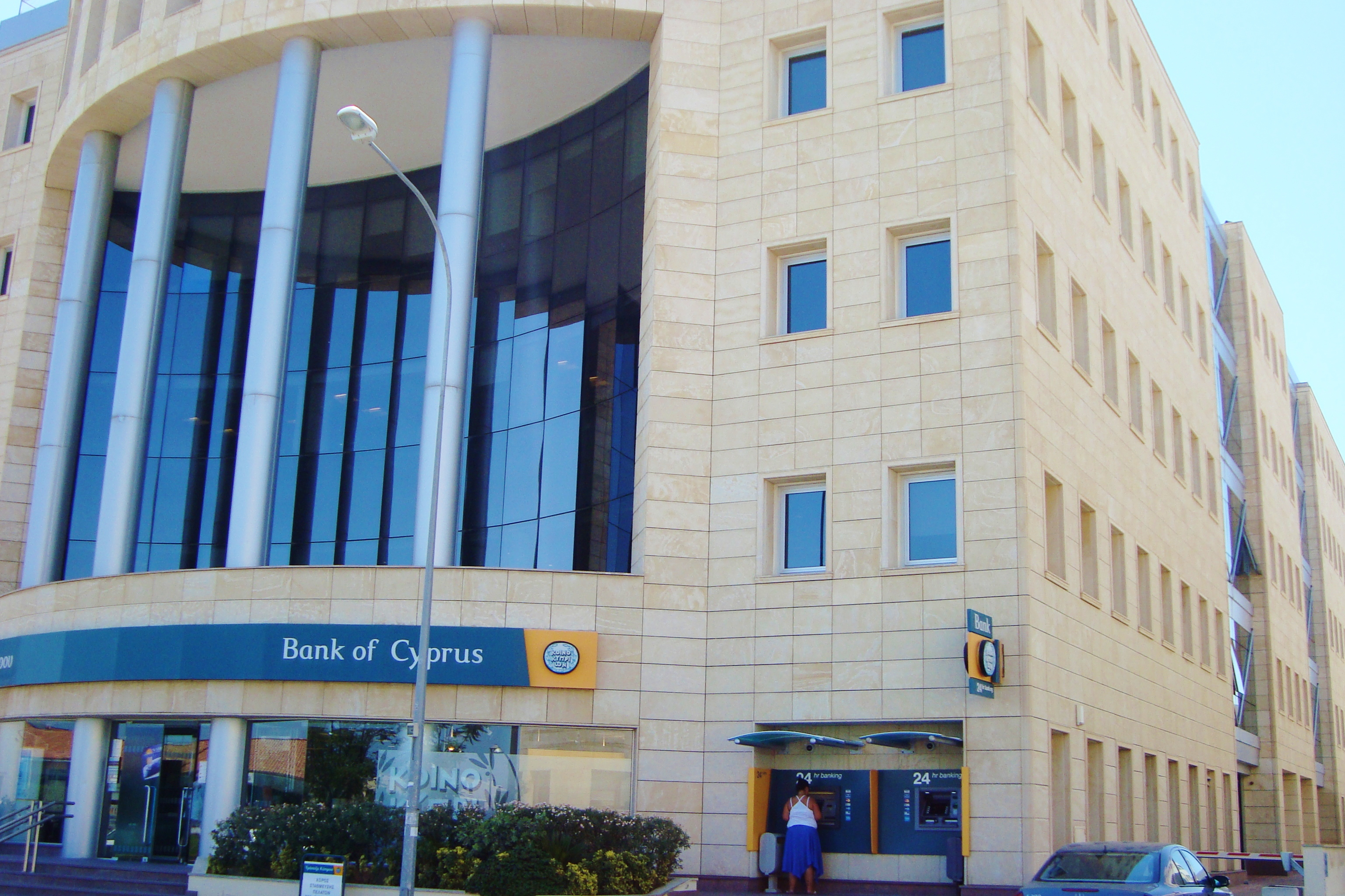 Bank of Cyprus huge offices in Aglandjia suburb of Nicosia Republic of Cyprus